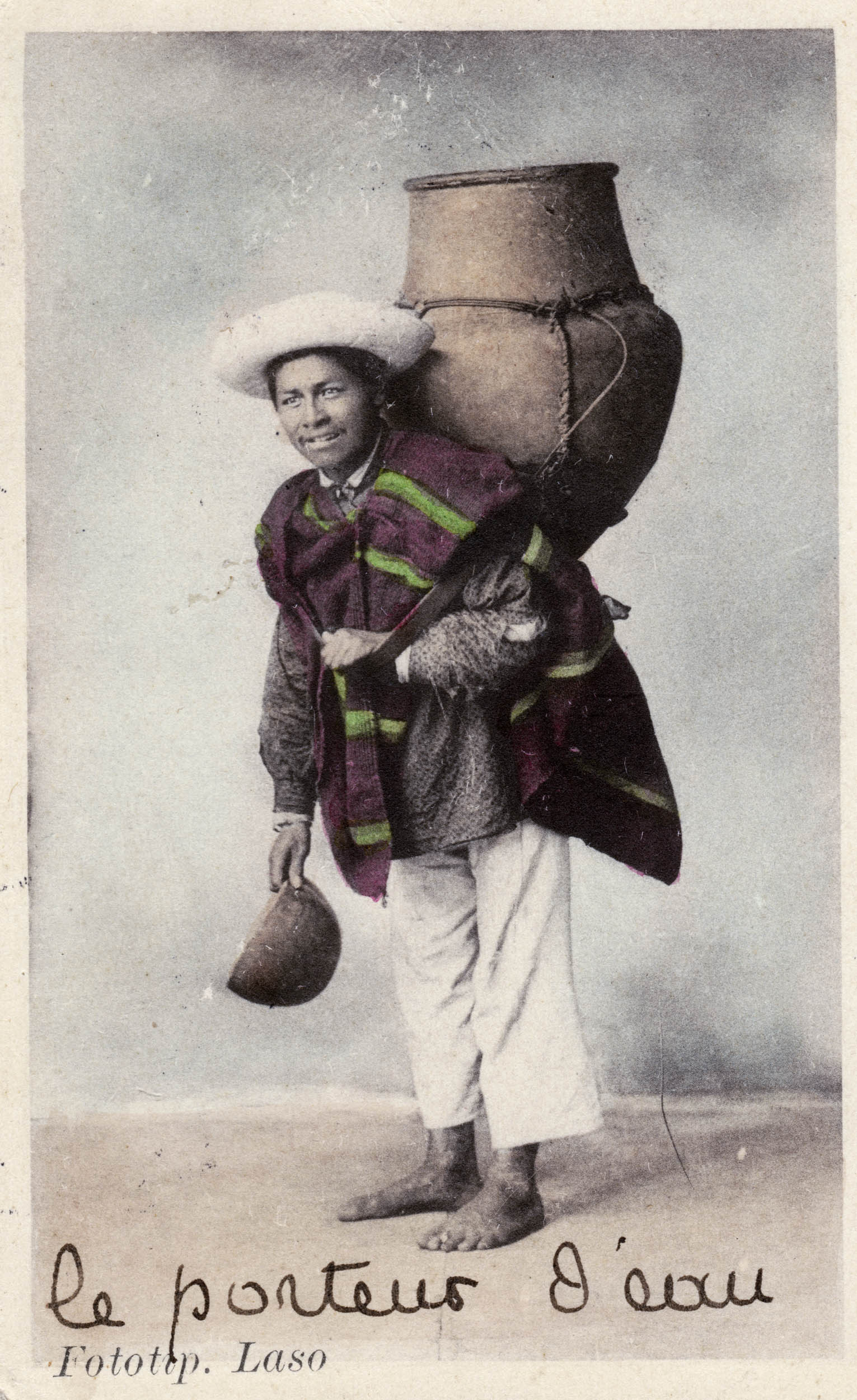 FOTOGRAFÍAS DE JOSE DOMINGO LASO. BORRON DEL INDÍGENA EN LOS ALBUMES SOBRE LA CIUDAD PUBLICADOS ENTRE 1911 Y 1924. INVESTIGACIÓN Y EXHIBICIÓN "LA HUELLA INVERTIDA". Investigador: Francois Coco Laso